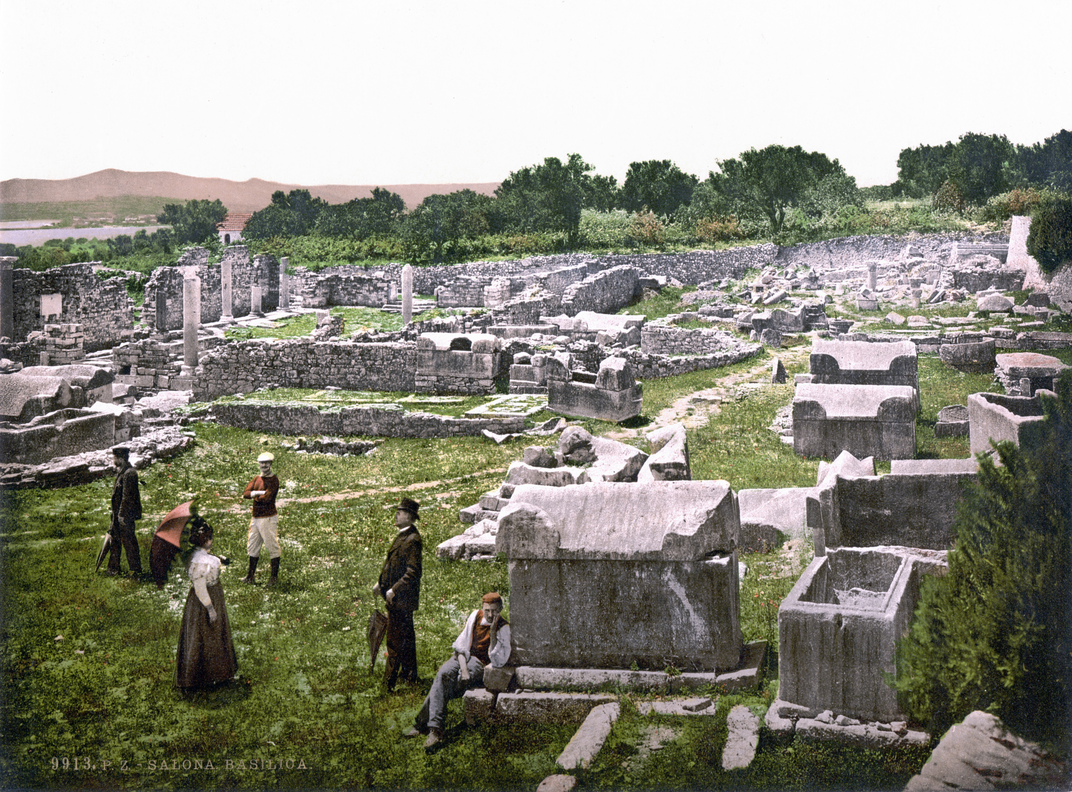 Basilica ruins in Salona, Dalmatia. Detroit Publishing Co. Print no. "9913"